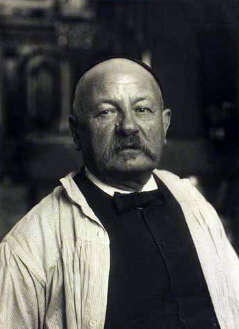 Kristian Zahrtmann (1842-1917)